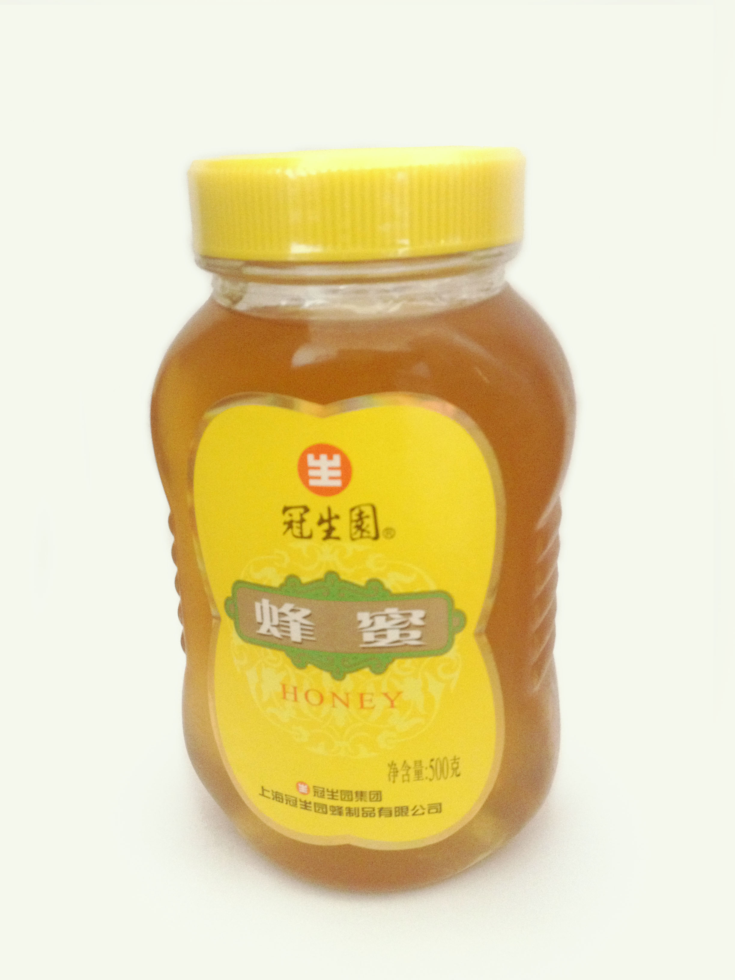 Shanghai Guanshengyuan Honey